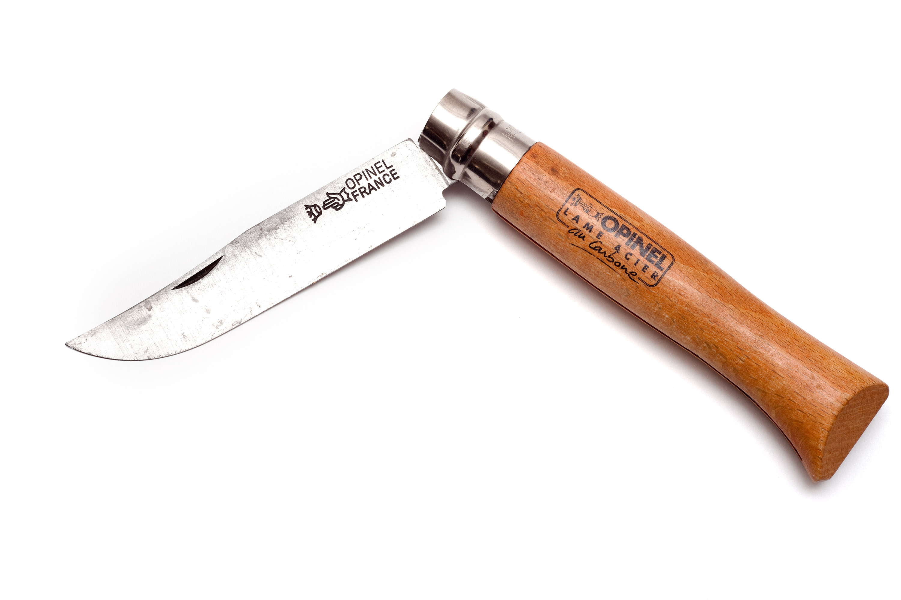 An Opinel number 12 folding knife.